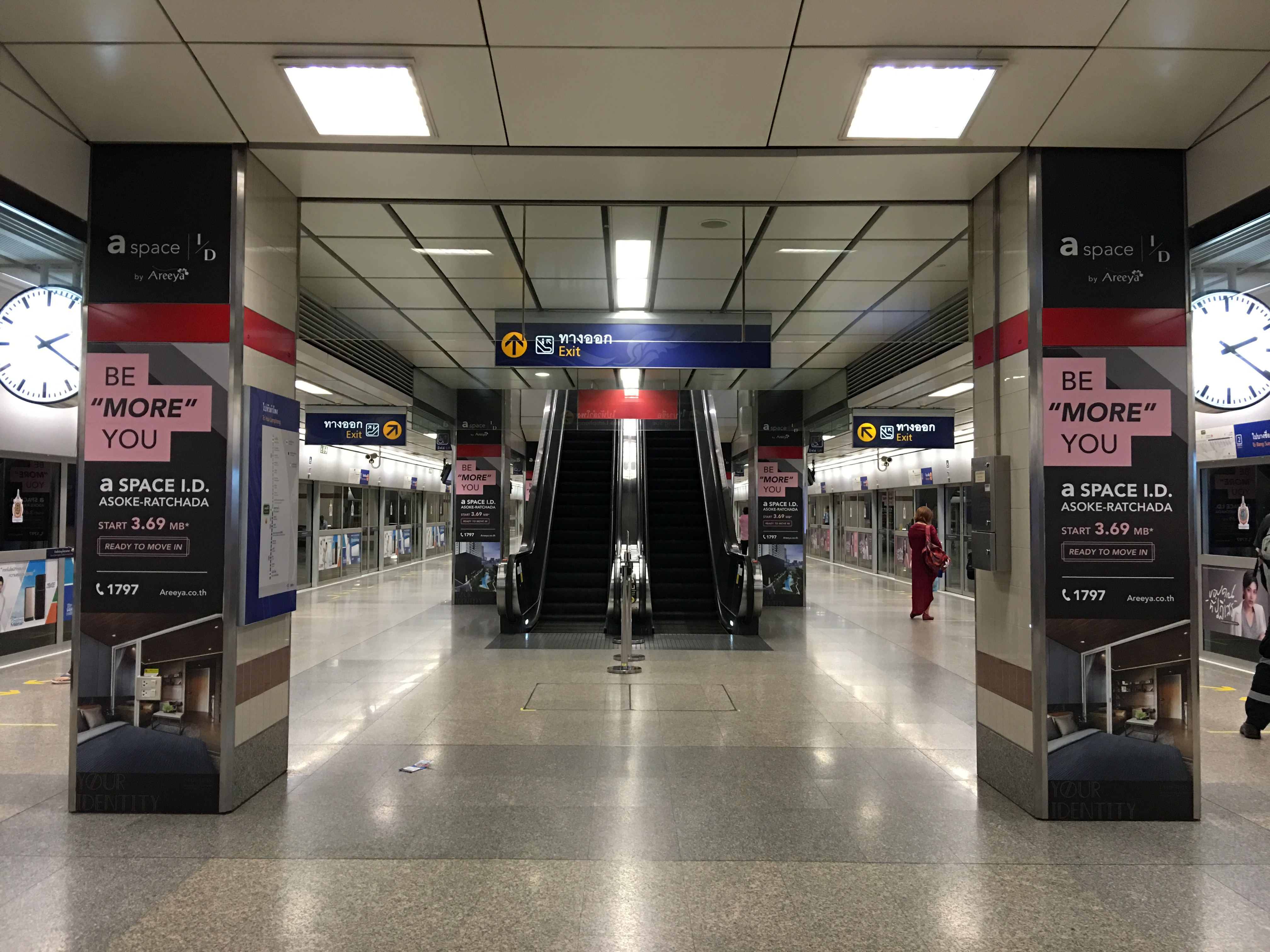 The platform level of Phra Ram 9 Station